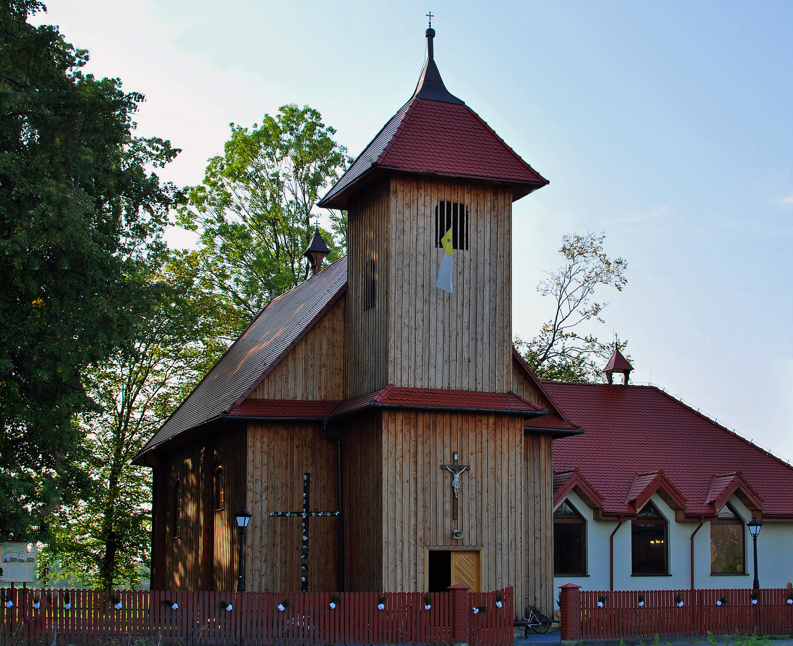 Church of St. Andrew Bobola (former evangelical church), Gawłów village, Bochnia county, Lesser Poland Voivodeship, Poland